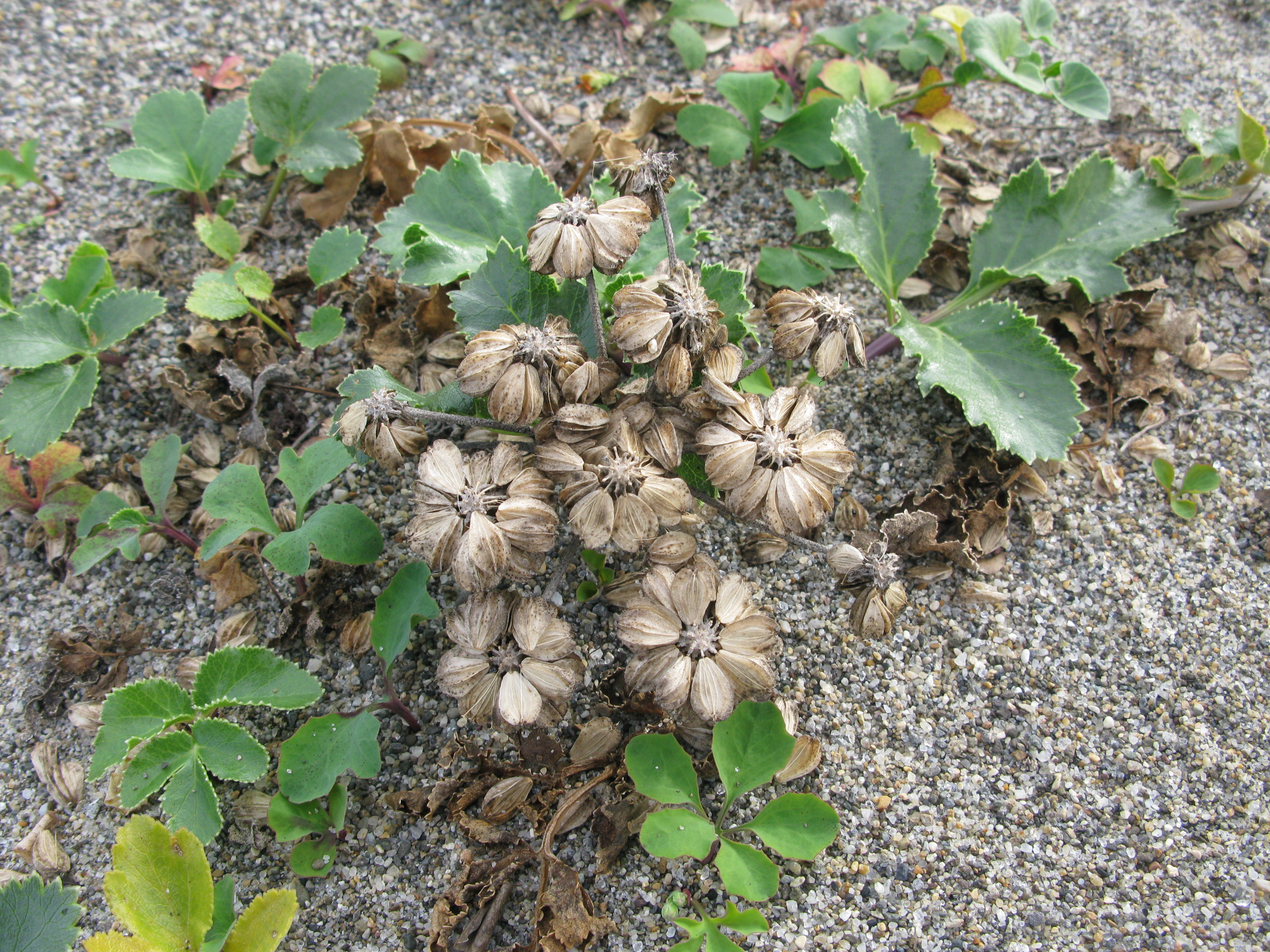 Glehnia littoralis, Syonai area, Yamagata pref., Japan